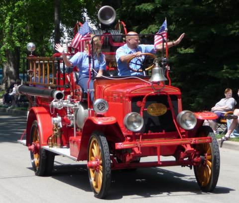 1920s Kissel Fire Truck appearing in 2008 4th of July Parade in Hartford, Wisconsin. It is displayed at the Wisconsin Auto Museum in Hartford. Its plaque reads that it's a 1923 model 51590. It was originally restored by the Hartford Fire Department in 1964 and later restored again in the mid 2000's.